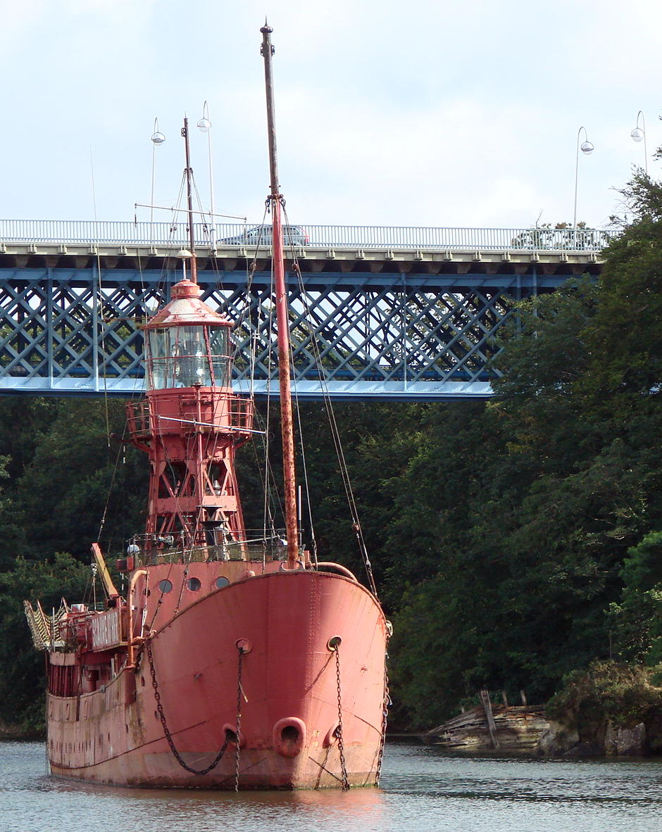 light vessel Scarweather at Douarnenez Built by: Philip & Son, Dartmouth, Devon, England Yard number: 1136 Date of completion: 1947 Length: 36.27 m Length o.a.: 41.83 m Beam: 7.62 m Draught: 4.57 m